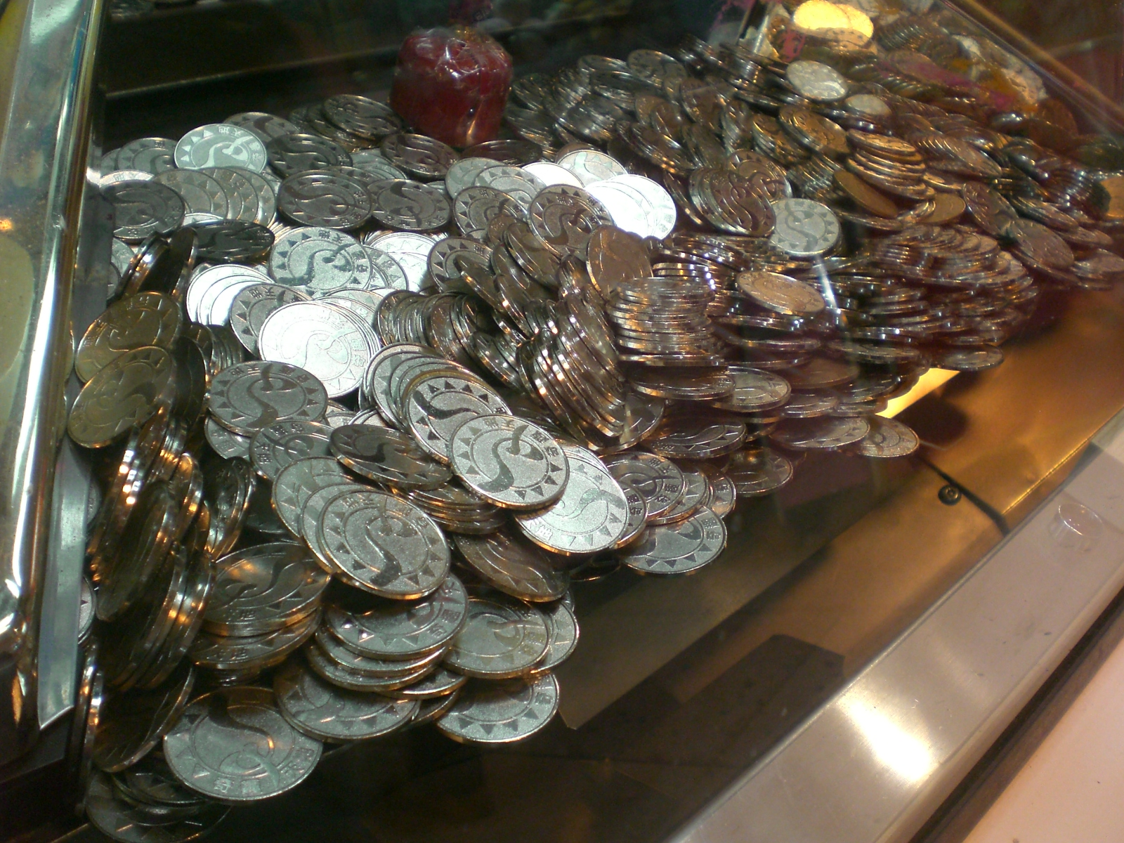 西九龍中心室內遊樂場奇趣天地代幣, Cash pusher, Dragon Centre, Sham Shui Po, Kowloon, Hong Kong.